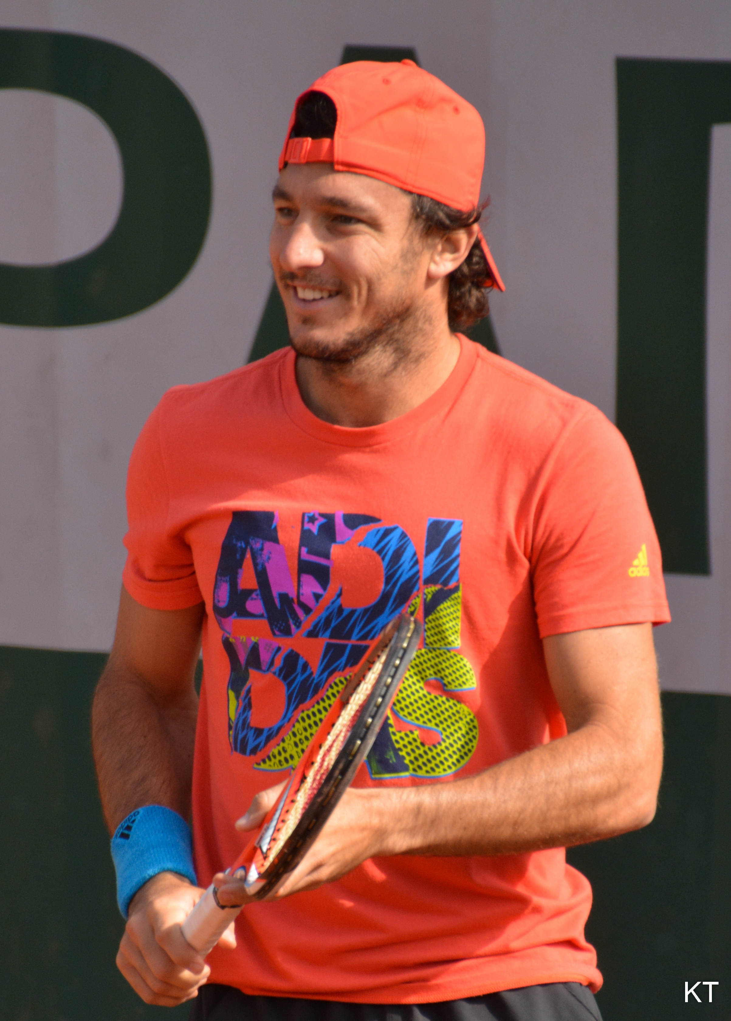 Day 4 of Roland Garros 2015.